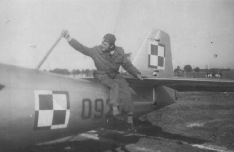 Plut. Józef Lipowicz na lotnisku 64.LPS podczas czynności sprawdzających przy TS-8 Bies, 1961